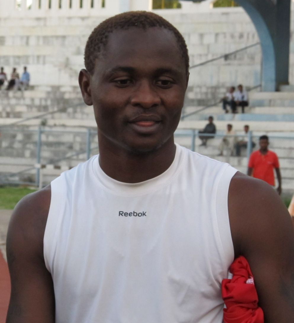 Odafe Onyeka Okolie (born 1985 in Nigeria), is a Nigerian football (soccer) player. He is currently playing for Churchill Brothers SC in the Indian I-League. Successes including being name top goal scorer in the I-League and being the highest paid footballer in India on a report $200,000 USD. He scored 6 goals in Churchills Brothers 9-1 win over Vasco SC on the 20th of February. He is the most prolific scorer in the I-League.